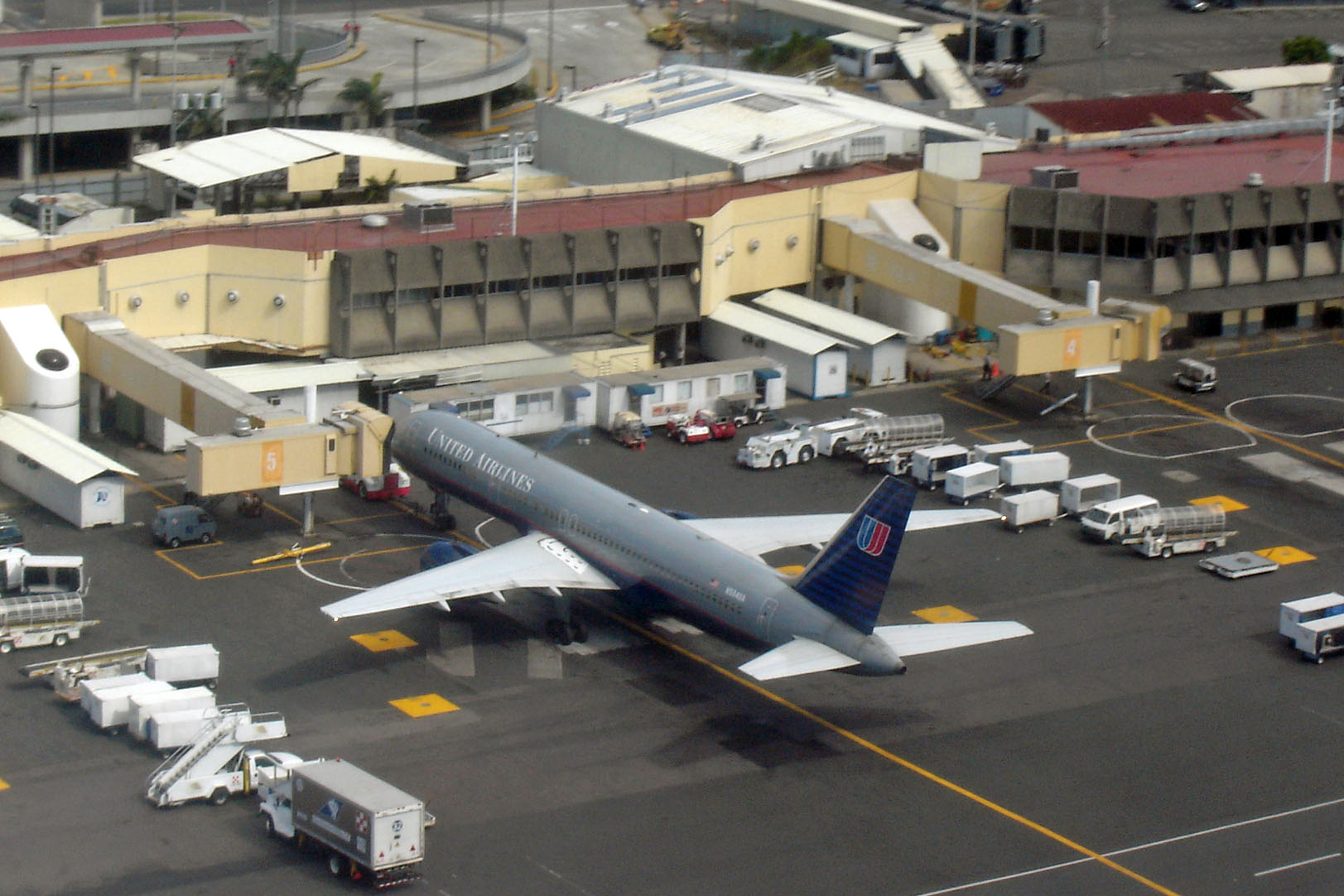 United Airlines aircraft at Juan Santamaria International Airport (SJO) Costa Rica